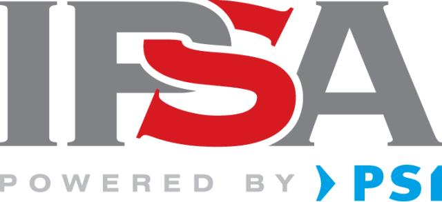 IPSA exhibition logo